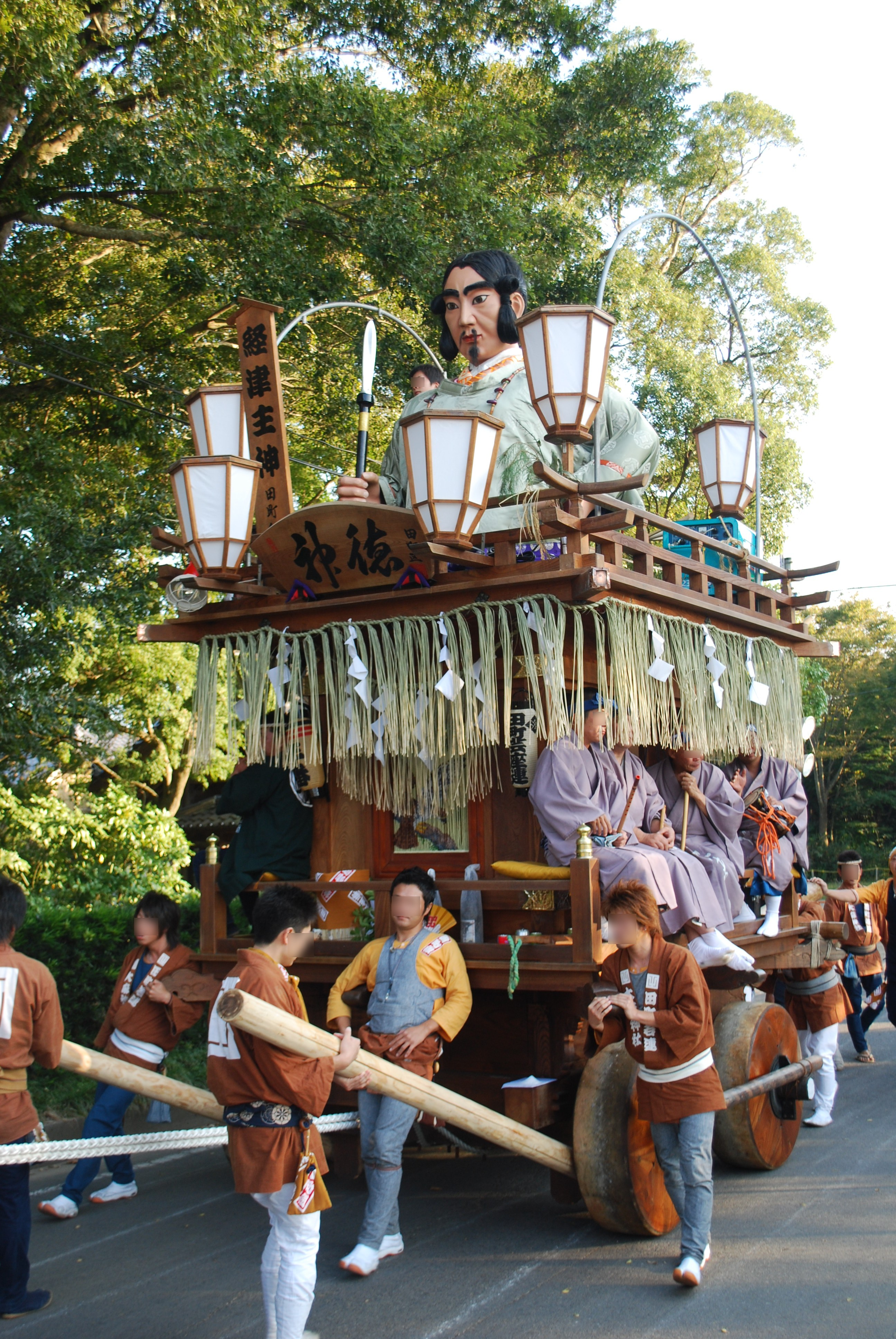 Aso-festival,Tamachi,Namegata-city,Japan